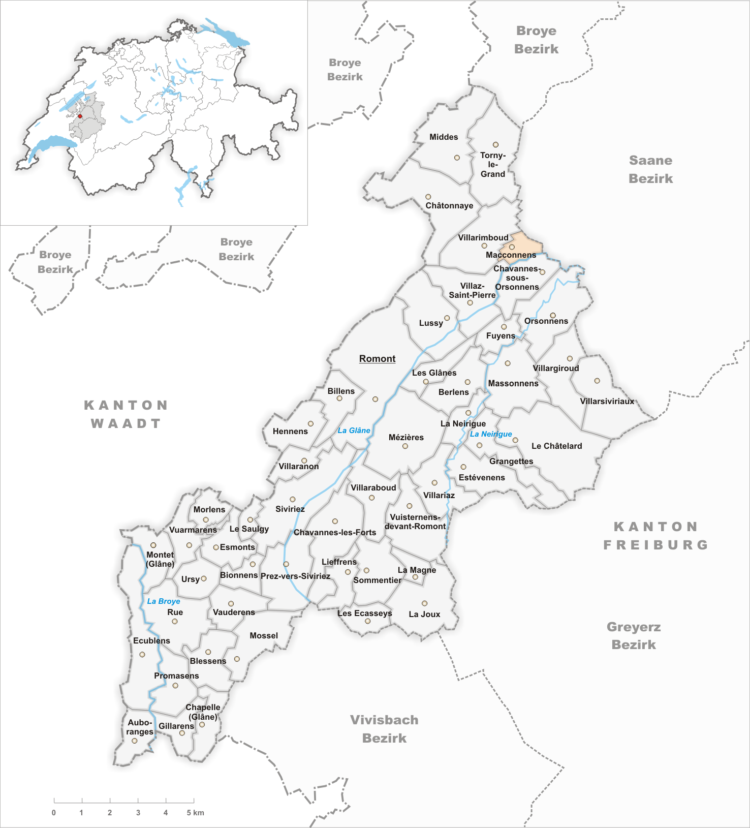 Municipality Macconnens Artist: Tschubby